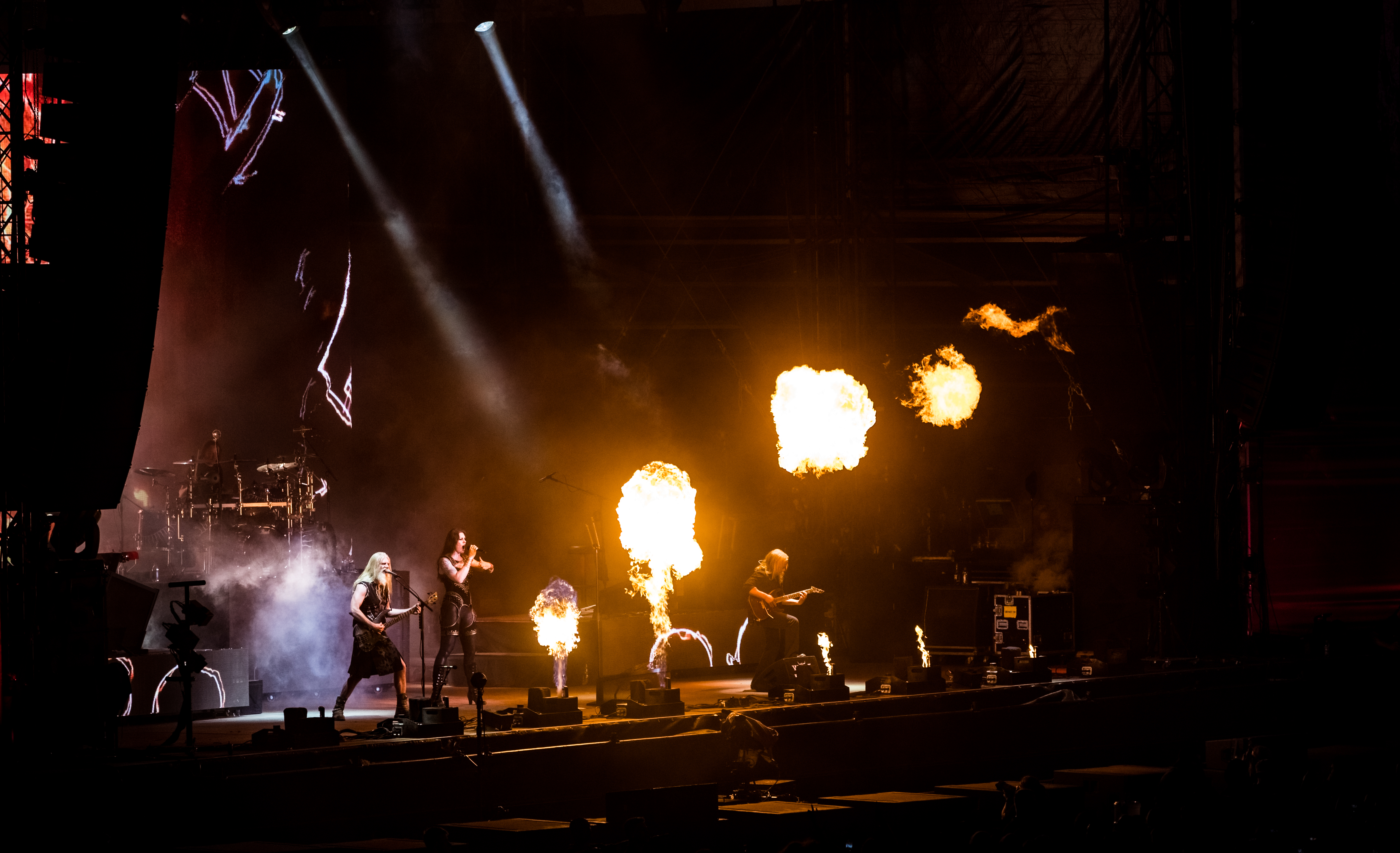 Nightwish - Wacken Open Air 2018